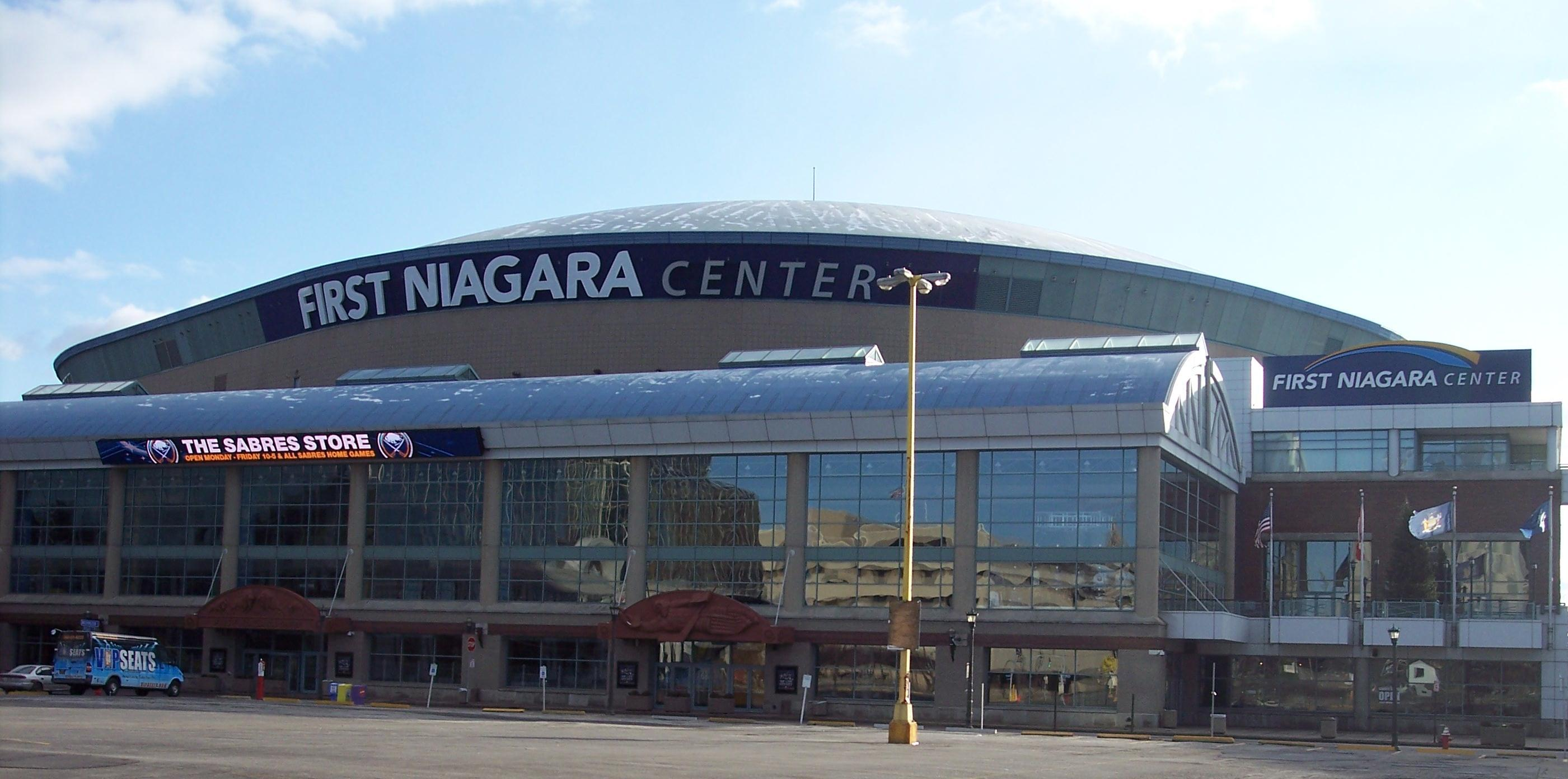 First Niagara Center, One Seymour Knox III Plaza, Buffalo, New York, 14203-3096